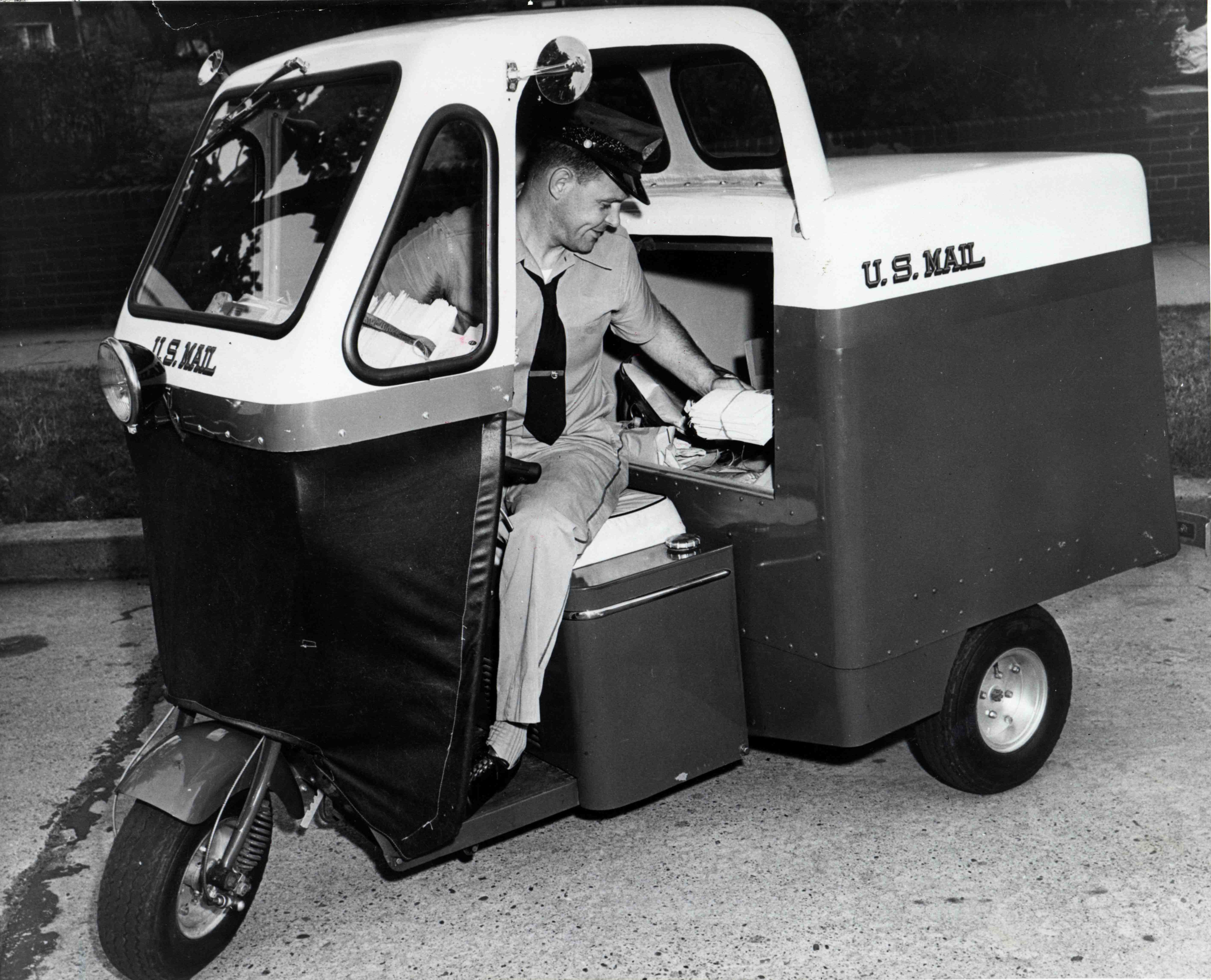 Description: City letter carrier seated in a three-wheeled Cushman "mailster" motor vehicle. Carriers used these vehicles to carry the ever-increasing amounts of mail that was being delivered to American households after end of the Second World War. The mailster worked best in temperate climates or on even terrain. In other areas, they sometimes did not work at all. Northern carriers, immobilized in as little as three inches of snow, also complained of the vehicles' inability to heat properly. The three-wheel design left mailsters susceptible to tipping over if cornering over 25 miles per hour or if caught in a wind gust. One carrier complained that his mailster was tipped over by a large dog.